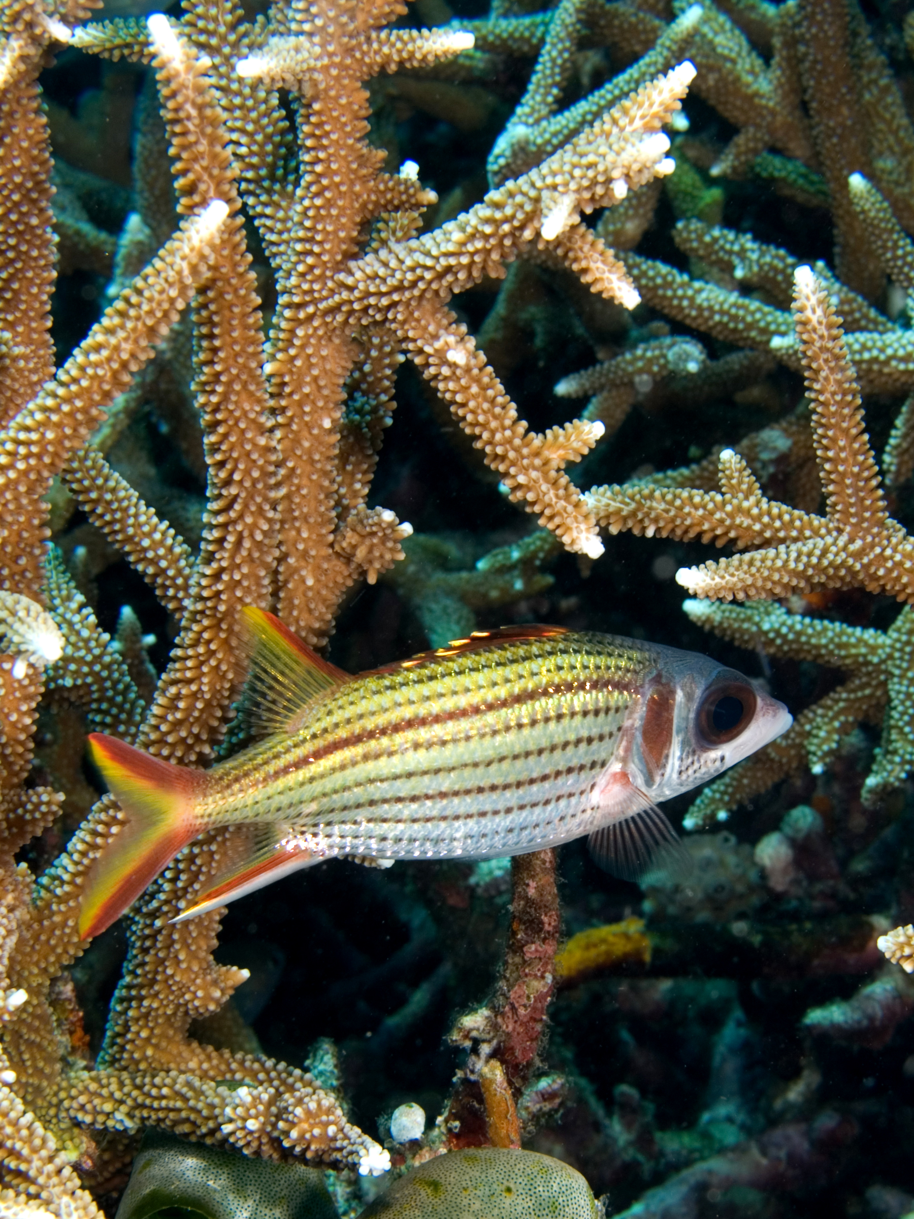 Sargocentron microstoma (Smallmouth squirrelfish) in Acropora formosa (Staghorn coral)